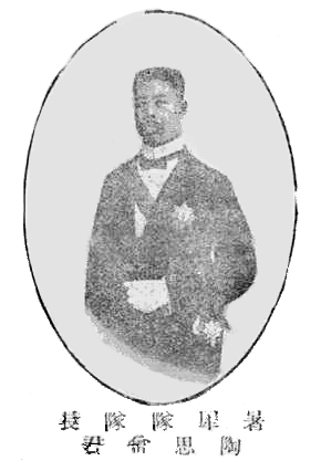 Tao Sizeng (1878－1943)